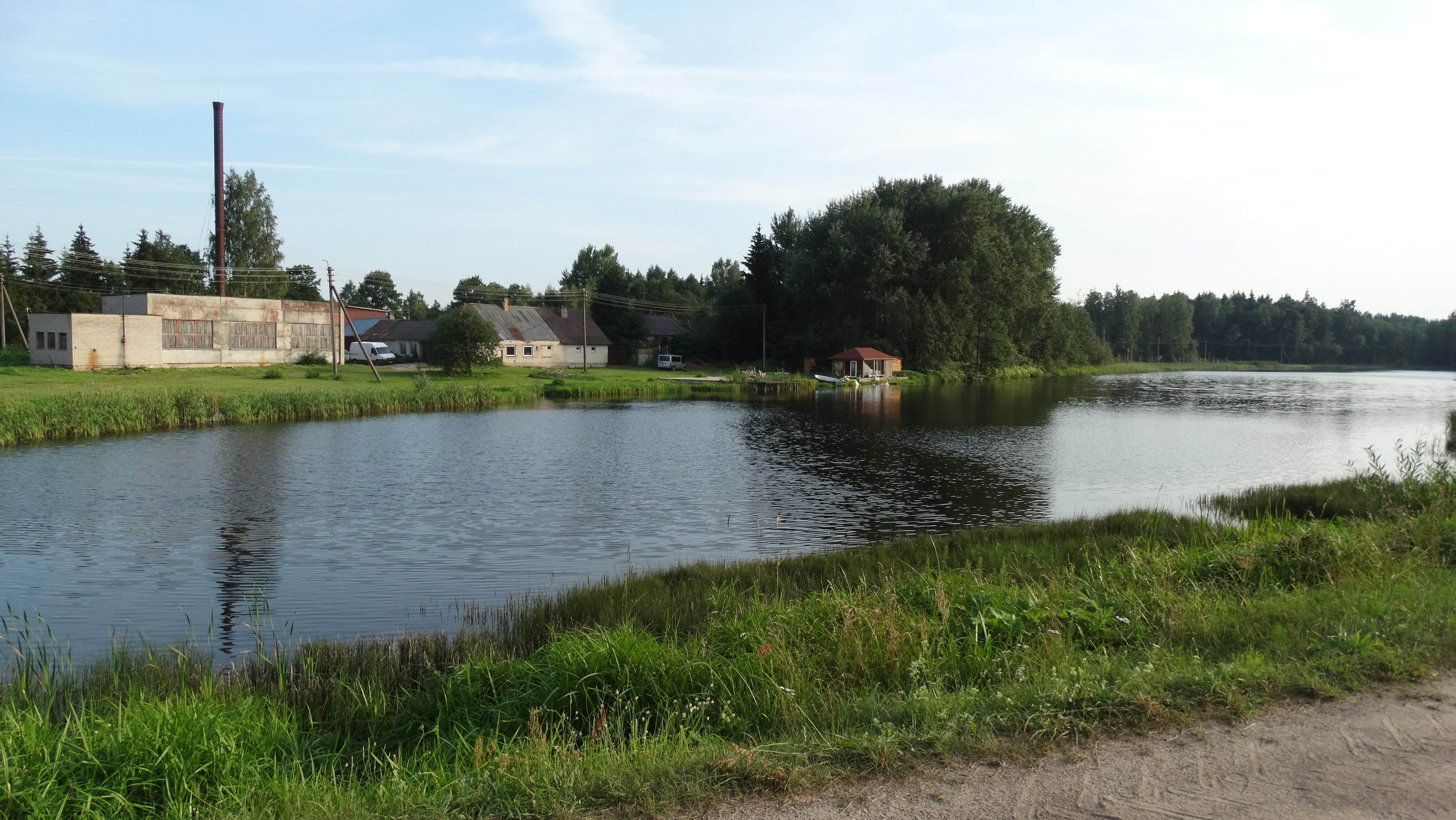 Cirkliškis, Švenčionys District, Lithuania